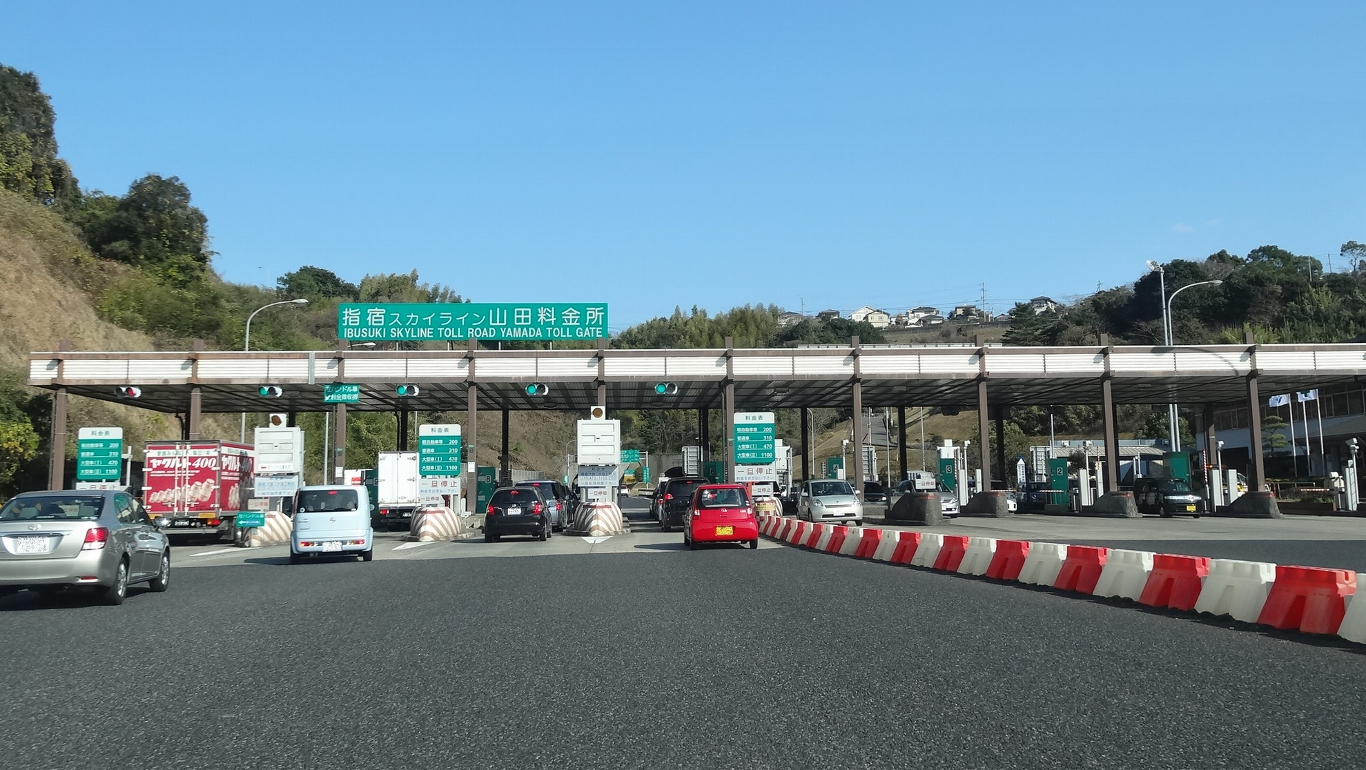 Ibusuki Skyline Toll Road - Yamada Toll Gate (Kagoshima City, Japan)